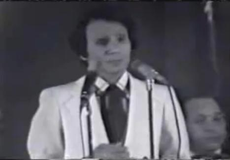 Egyptian singer Abdel Halim Hafez siniging "Qari'at el Finjan" in his last concert abroad, Damascus 1976.